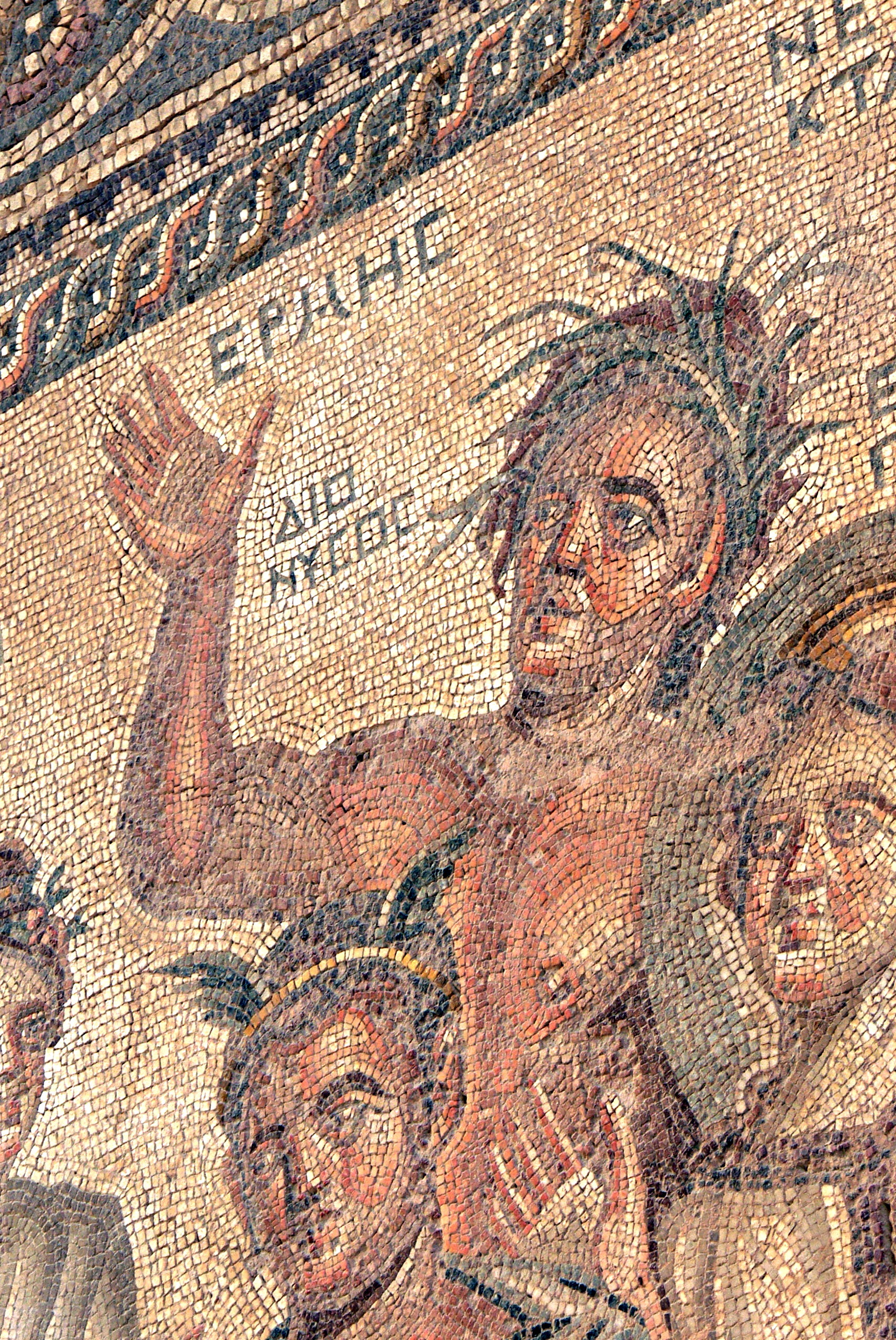 Paphos Archaeological Park. House of Aion: Birth of Dionysos - Nectar, allegory of immortality ( detail ).